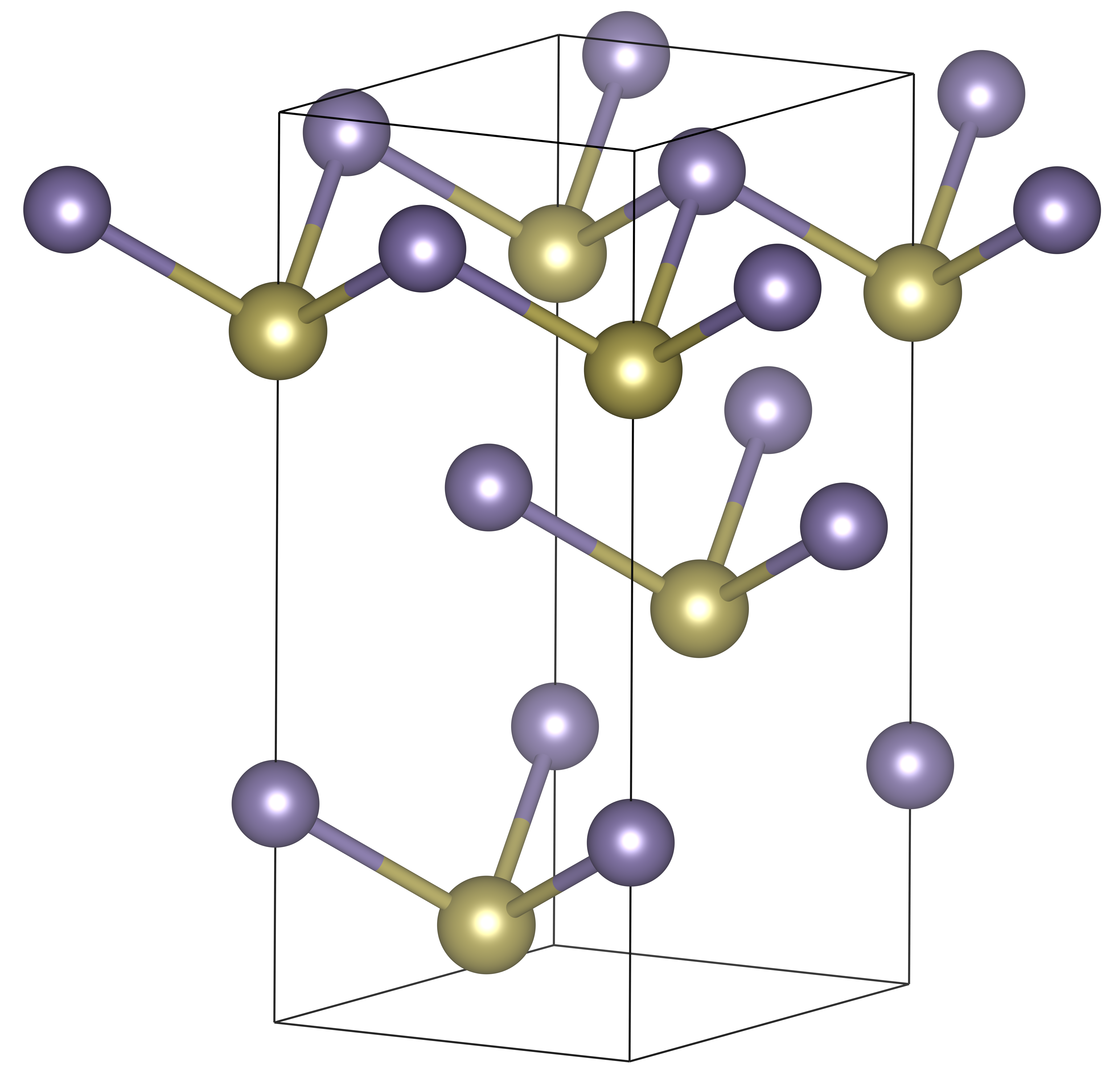 Unit cell of germanium(II) telluride. Created with VESTA. Source of crystal structure